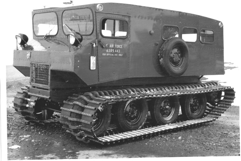 U.S. Air Force 1963 Thiokol Model 601. This model 601 is powered by a 243 cubic inch motor with a 4 speed manual transmission run through an Oliver Clark (OC-15) rear drive. The tracks are 32" wide.